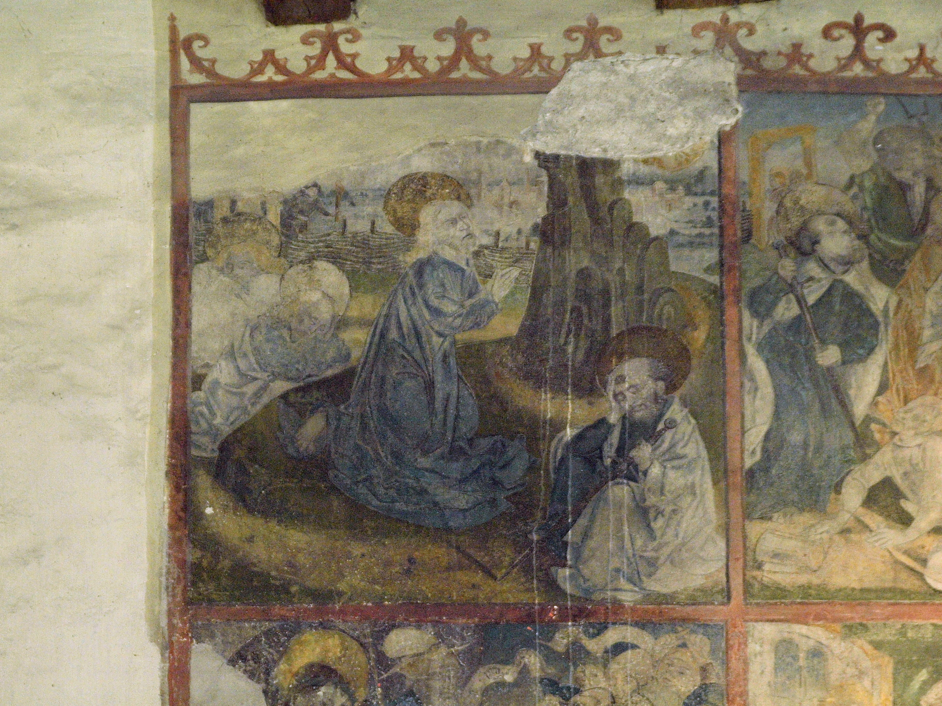 Fresko Passion of Christ on the norther wall of Peterskirche in Lindau (Bodensee), Germany. Dating to 1485-1490. Upper row, image 1.